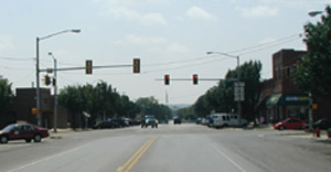 Blanchard Main Street